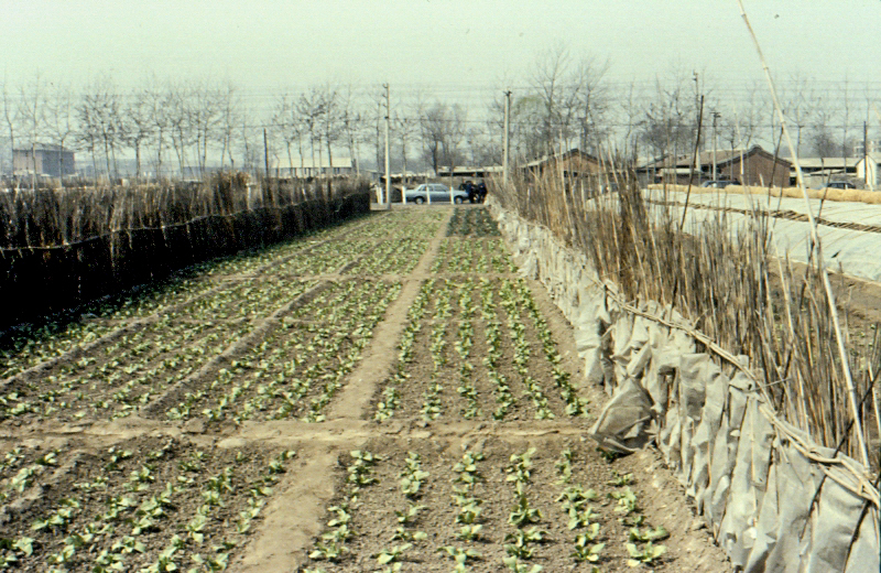 Visit to the People's Commune named Chinese-Hungarian Friendship by the Hungarian Ambassador